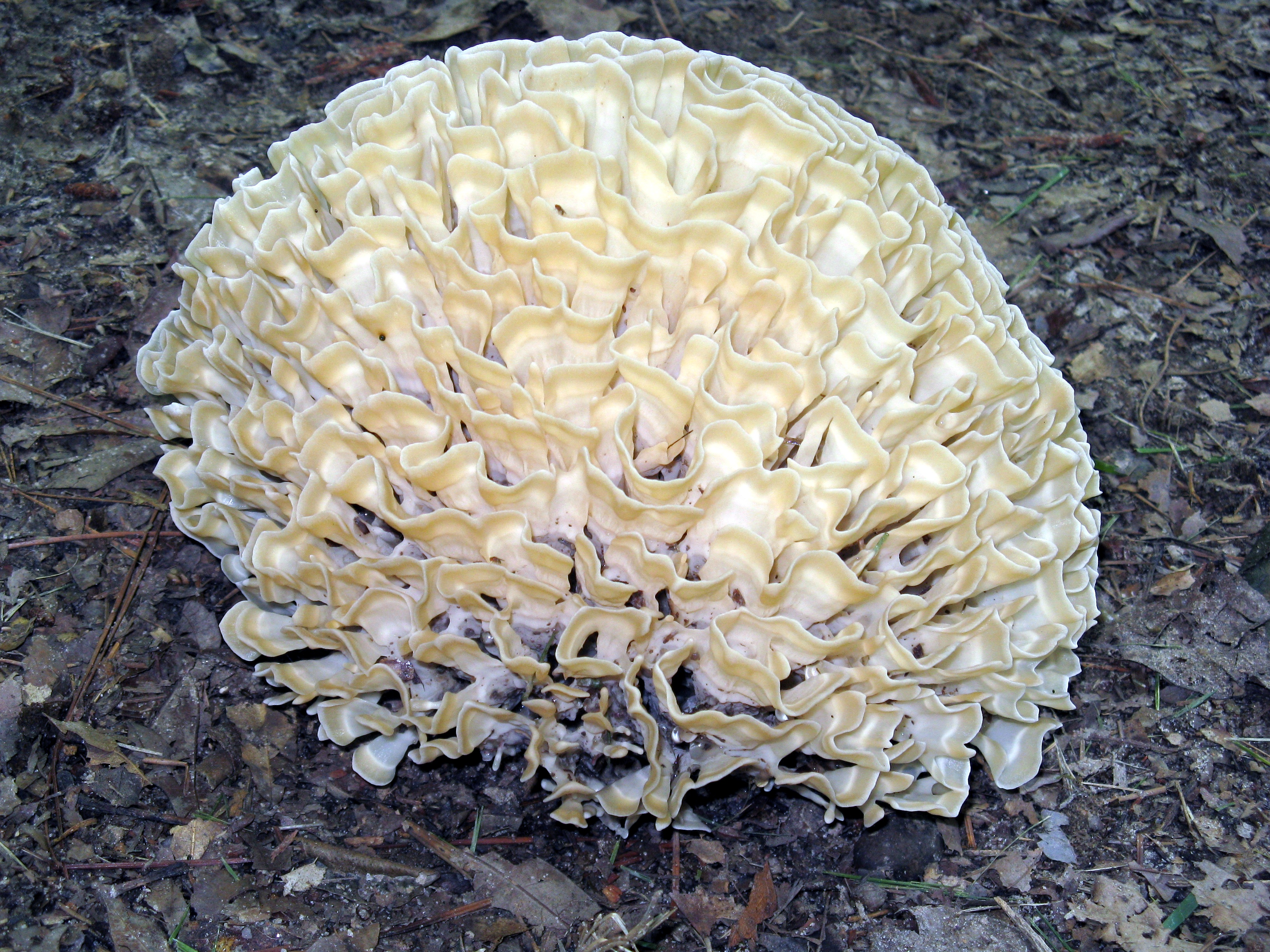 I'm pretty sure this is a Sparassis crispa, also called a Cauliflower Mushroom. I found it in my back yard. At first I thought it was a loofah sponge! I think this is more likely Sparassis spathulata.